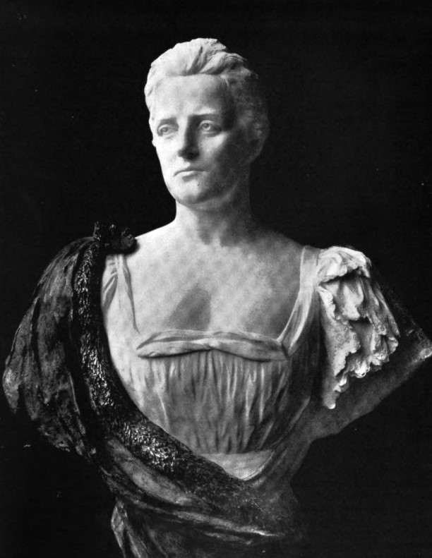 A portrait bust of Princess Helene of Sachsen-Altenburg by Emma Cadwalader-Guild.